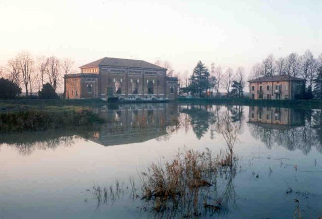 Argenta: Saiarino water pumping station, now Museo della Bonifica (reclamation museum) centre.